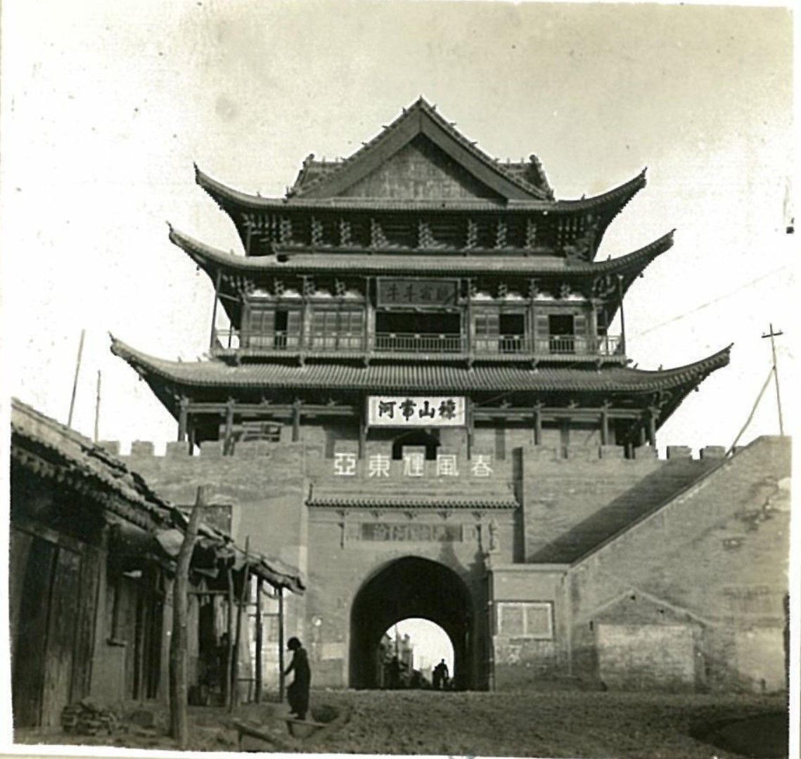 Dazhong Pavilion, Linfen, Shanxi. Also called Drum Tower.